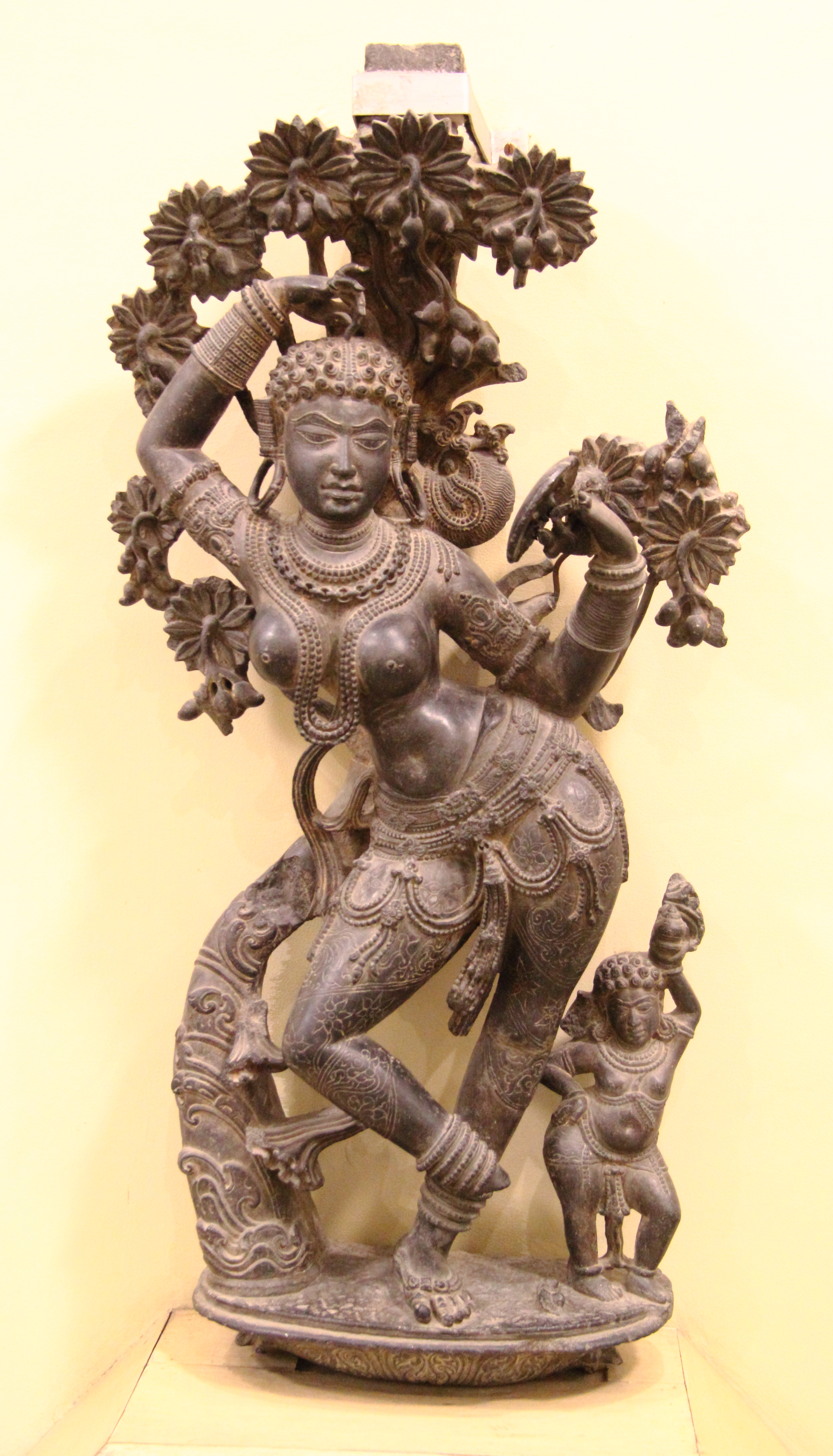 India: National Museum, New Delhi, stone statue of Mohini, the only female incarnation of Hindu god Vishnu, Western Chalukya empire, Gadag (Karnataka), 12th century A.D.